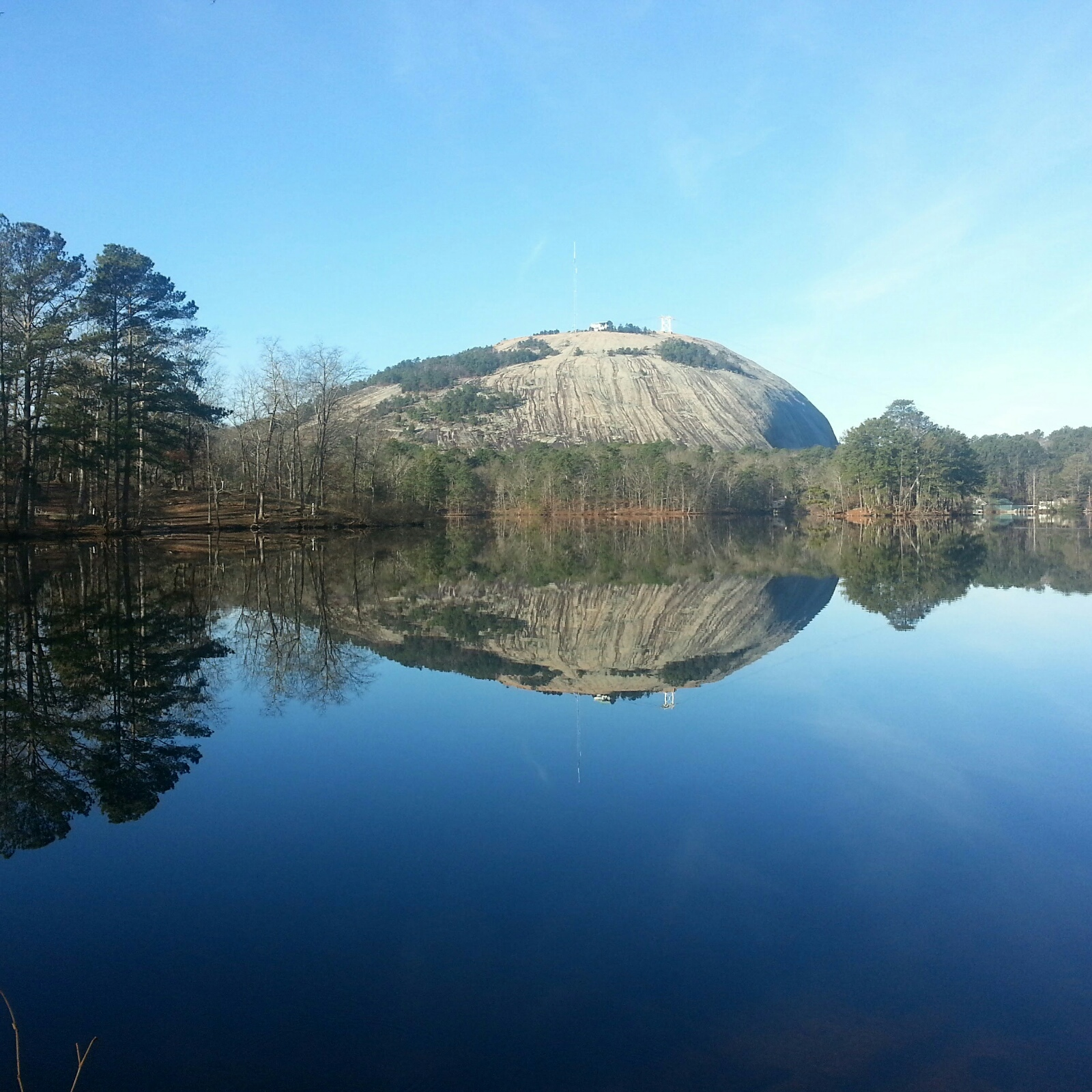 Lake in Stone Mountain Park which is located in the city of Stone Mountain in DeKalb County, Georgia.